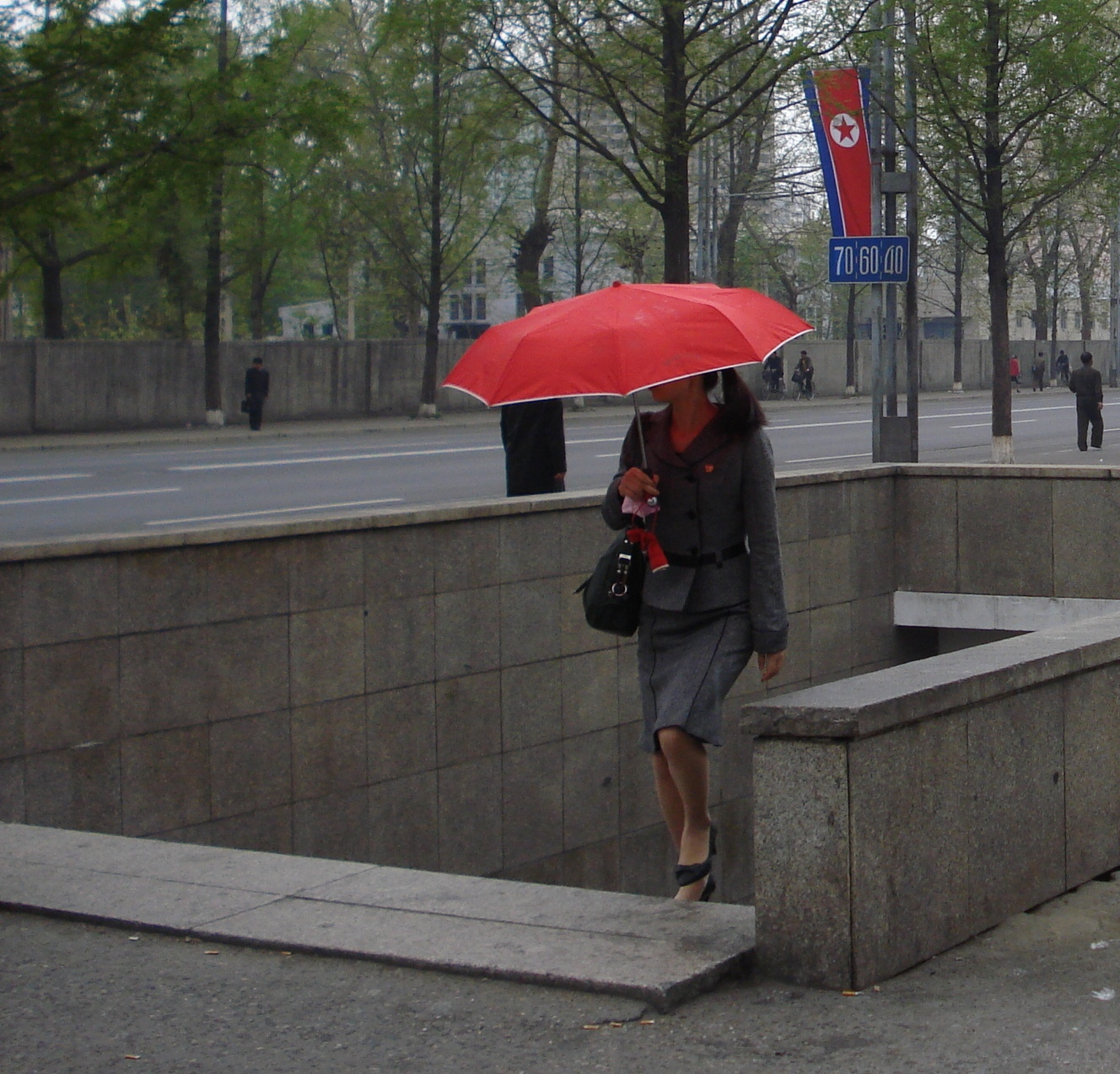 Young Korean lady walking in Pyongyang, DPRK